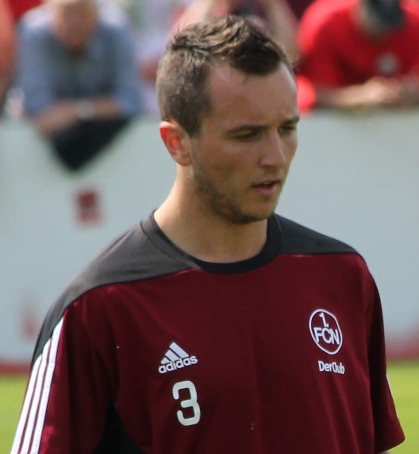 Even Hovland, player of 1. FC Nürnberg.